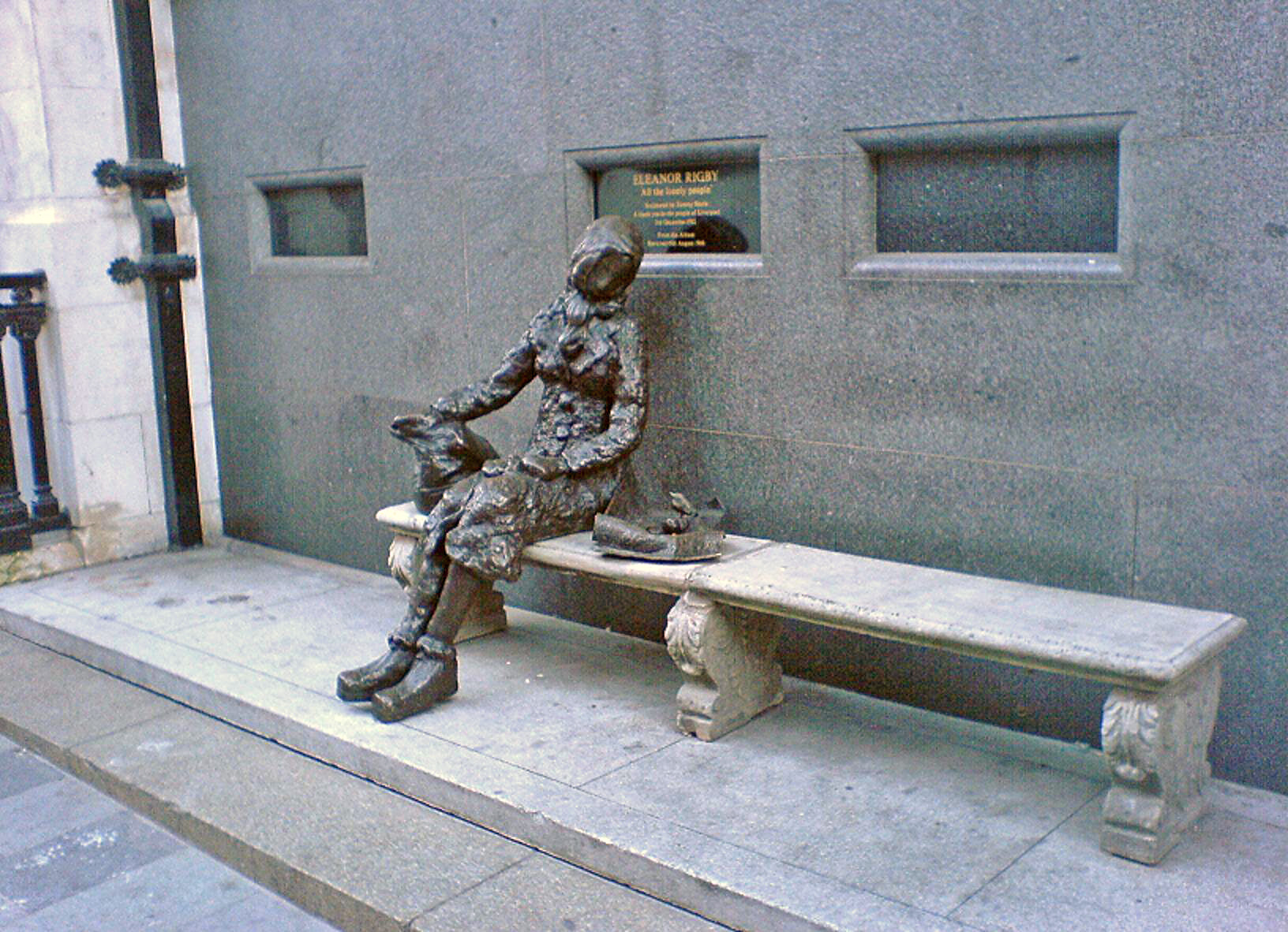 Picture of the statue of Elenor Rigby Statue in Stanley St. in Liverpool. (Exerpt without time/date-stamp etc.).